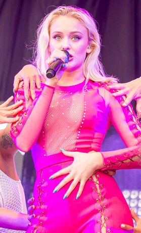 Zara Larsson at the minor stage during Stavernfestivalen in Stavern on 08. July 2016. Lineup:Zara Larsson (vocal)